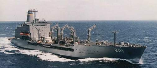 U.S. Navy Henry J. Kaiser-class fleet replenishment oiler USNS Patuxent (T-AO-201)